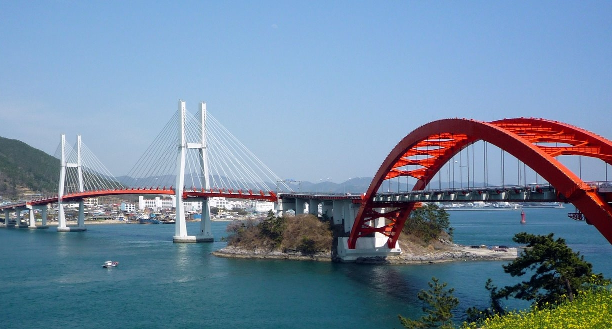 Changsun Sachunpo Bridge